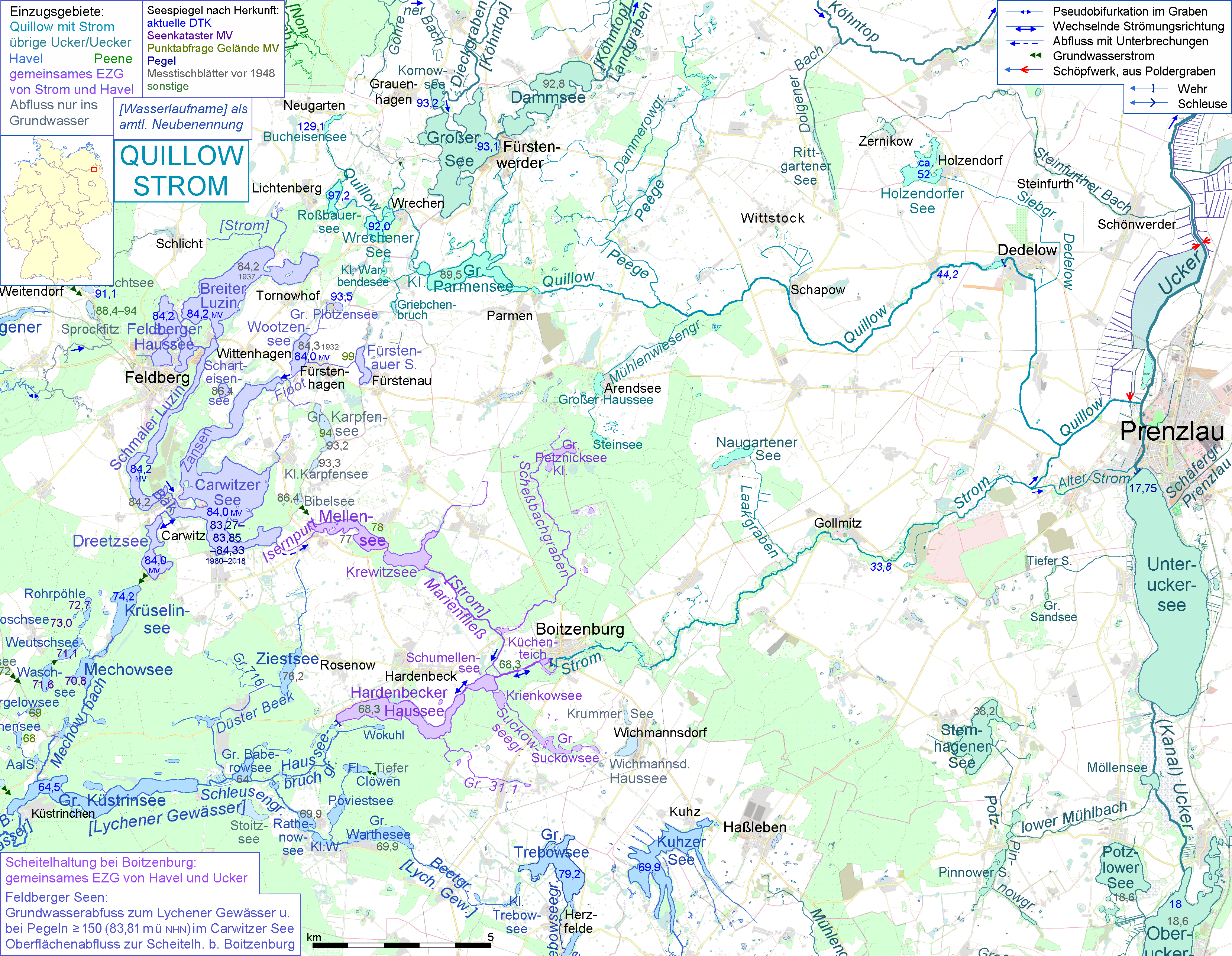 Map of the rivers Quillow and Strom, the latter the main tributary of Quillow. The Lakes around Feldberg (the municipality of Feldberger Seenlandschaft) are by an artificial pseudo-bifurcation equally tributaries of the rivers Strom and Havel. This map may be incomplete, and may contain errors. Don't rely solely on it for navigation.